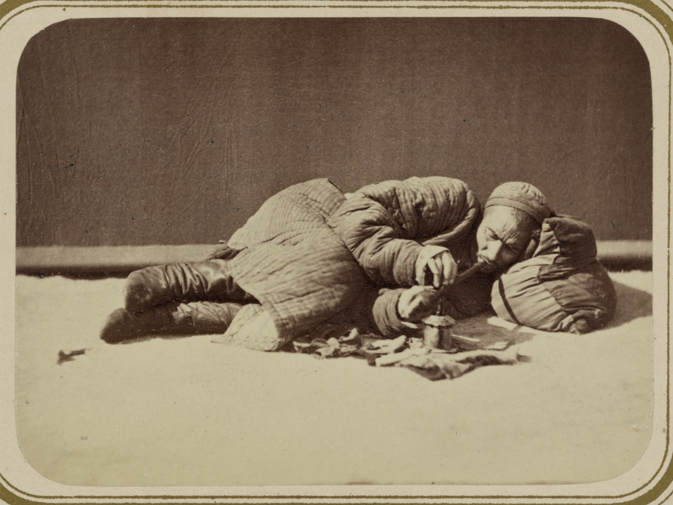 This photograph is from the ethnographical part of Turkestan Album, a comprehensive visual survey of Central Asia undertaken after imperial Russia assumed control of the region in the 1860s. Commissioned by General Konstantin Petrovich von Kaufman (1818–82), the first governor-general of Russian Turkestan, the album is in four parts spanning six volumes: “Archaeological Part” (two volumes); “Ethnographic Part” (two volumes); “Trades Part” (one volume); and “Historical Part” (one volume). The principal compiler was Russian Orientalist Aleksandr L. Kun, who was assisted by Nikolai V. Bogaevskii. The album contains some 1,200 photographs, along with architectural plans, watercolor drawings, and maps. The “Ethnographic Part” includes 491 individual photographs on 163 plates. The photographs show individuals representing the different peoples of the region (Plates 1–33); daily life and rituals (Plates 34–91); and views of villages and cities, street vendors, and commercial activities (Plates 92–163). Asians; Ethnographic photographs; Opium; Photographic surveys; Pipe smoking